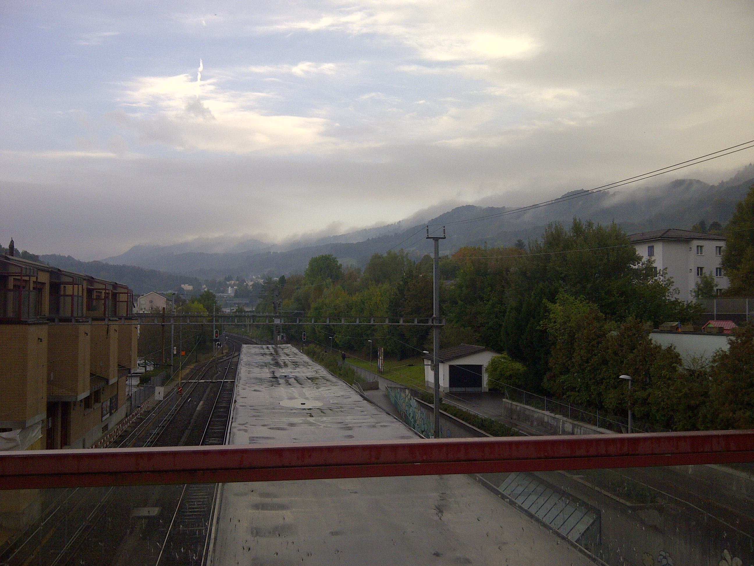 Adliswil railway station as seen from the pedestrian bridge, looking south. Taken October 2016.